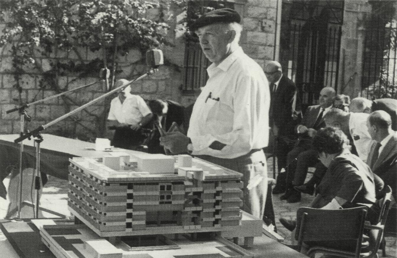 Architect Arieh Sharon presenting new building's model at the corner stone laying ceremony november 1966